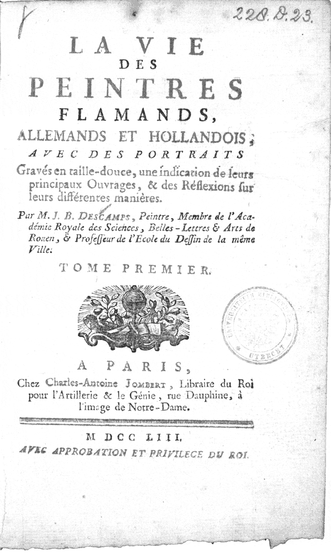 Book 1 of 4-volume painter biographies by Jean-Baptiste Descamps